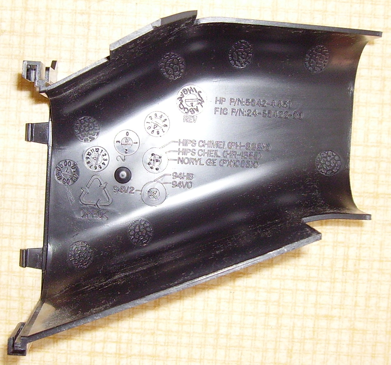 Cover in a PC, located between the heat sink of a Pentium III and an 80 mm cooling fan. Made of Noryl PX1005X (PPE+PS blend), as indicated.